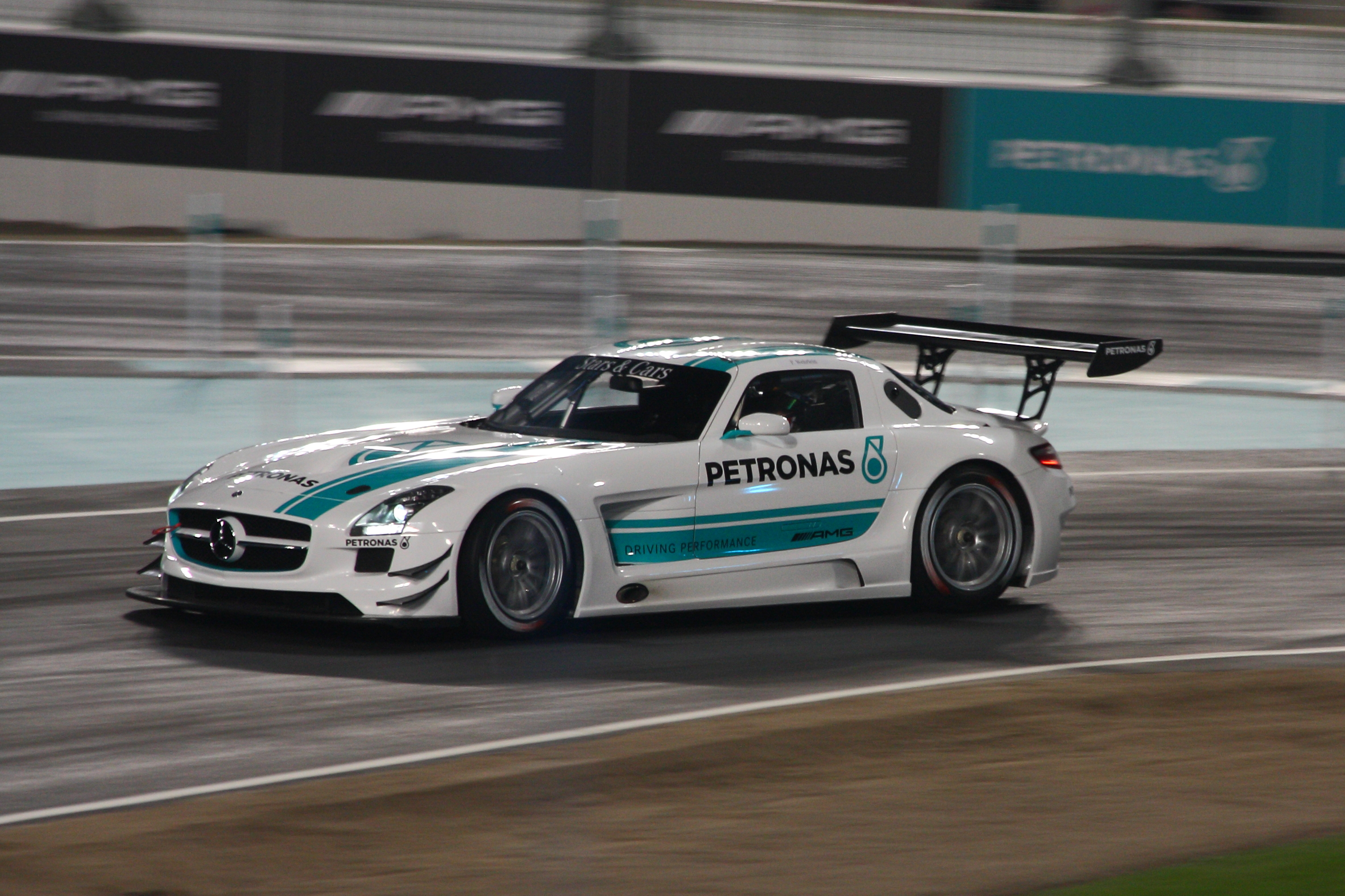 Mercedes SLS AMG GT3 at Stars and Cars 2015; Driver: Pascal Wehrlein